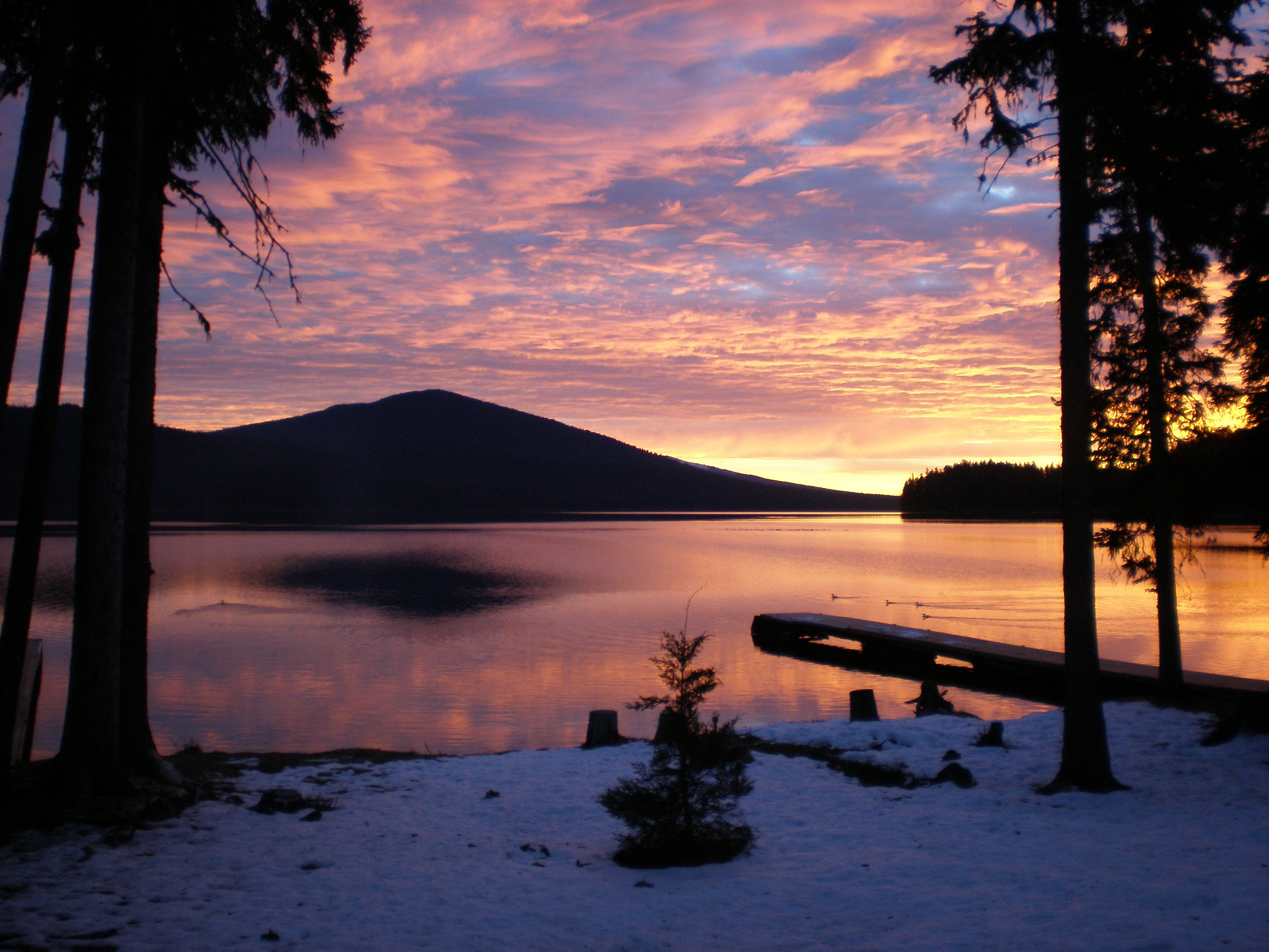 Odell Lake at dawn by Gary Leaming